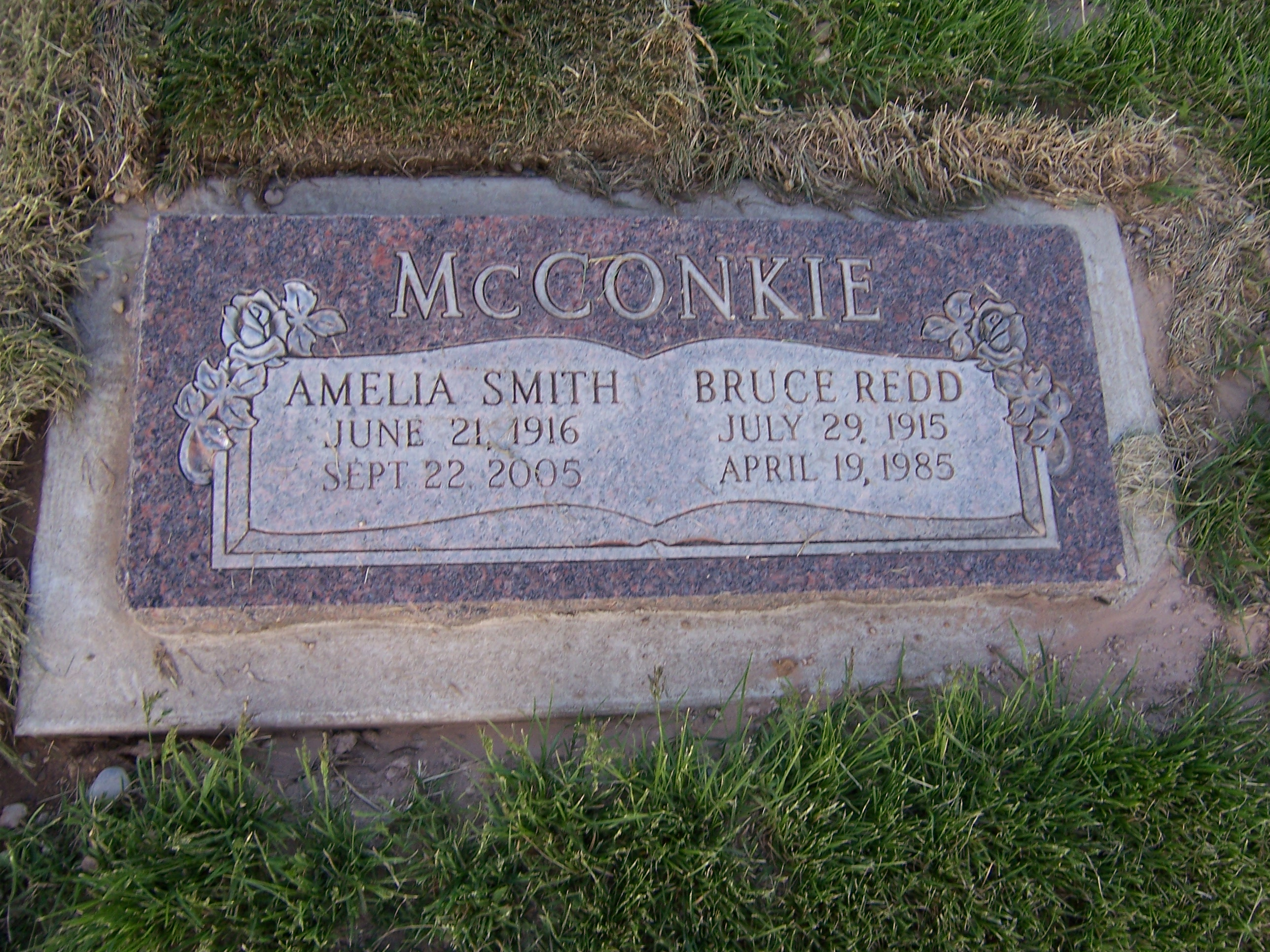 Grave marker of Bruce R. McConkie, a member of First Council of the Seventy (1946-1972) and the Quorum of the Twelve Apostles (1972-1985) of The Church of Jesus Christ of Latter-day Saints (LDS Church).